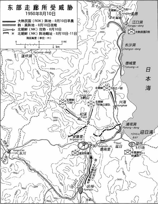 Map of the Battle of P'ohang-dong